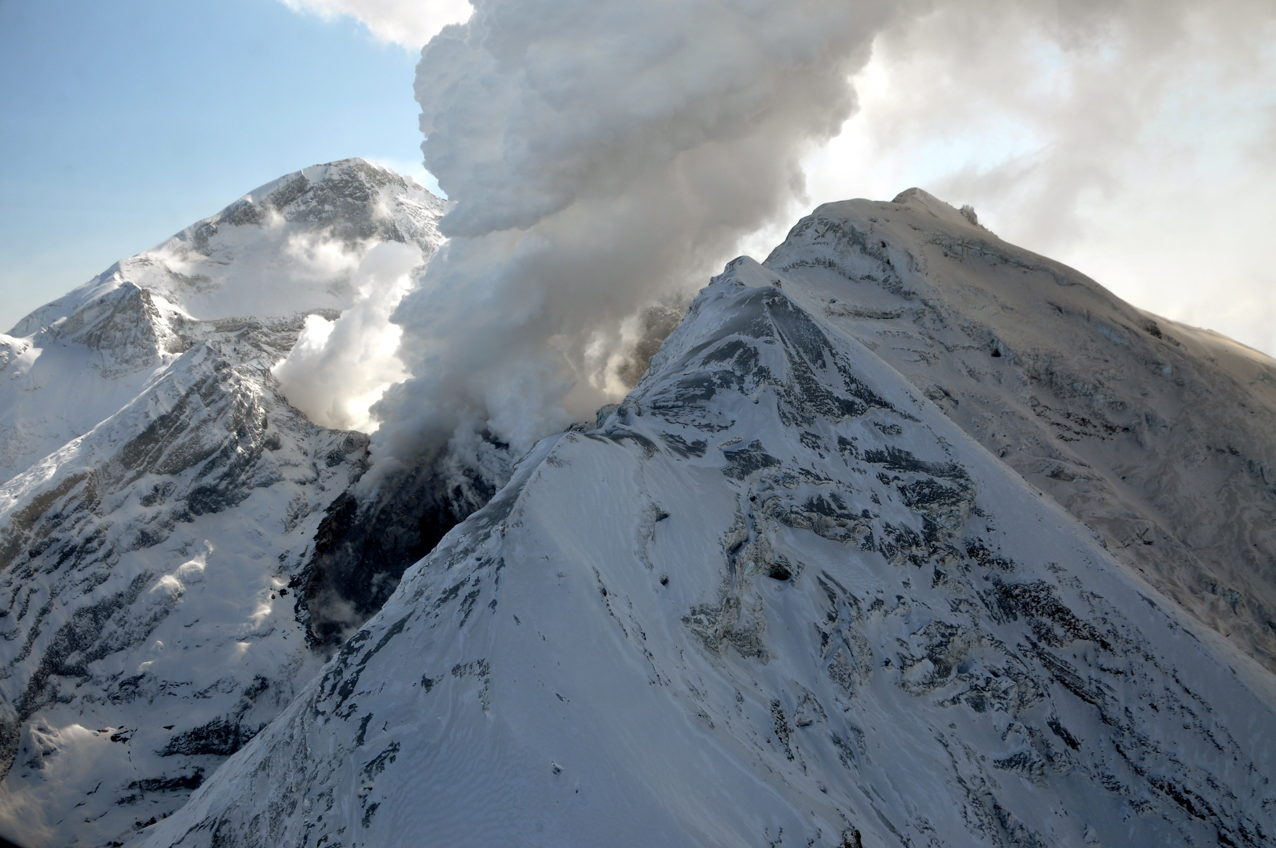 Eruption of Mt Redoubt, Alaska - New lava dome in the summit crater, known since 2009-04-04, with plume. Original Caption: Counterclockwise rotation of the Redoubt plume seen as it rises.